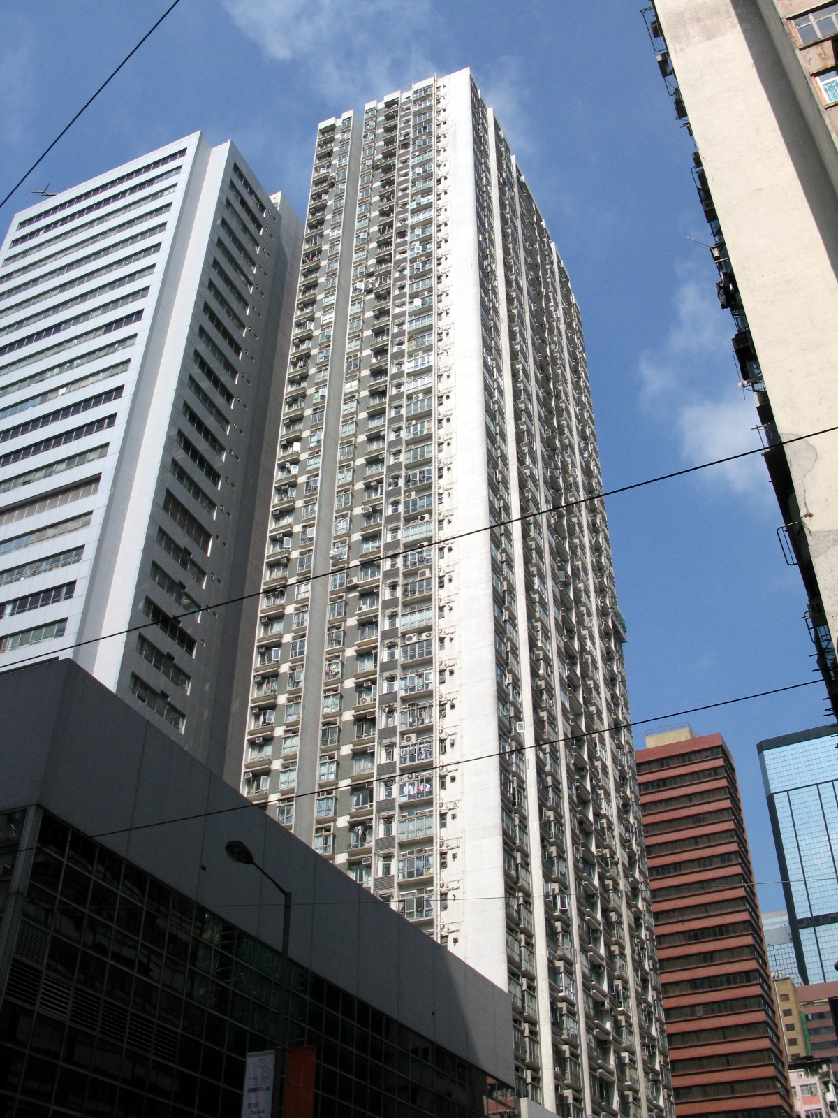 Southorn Garden